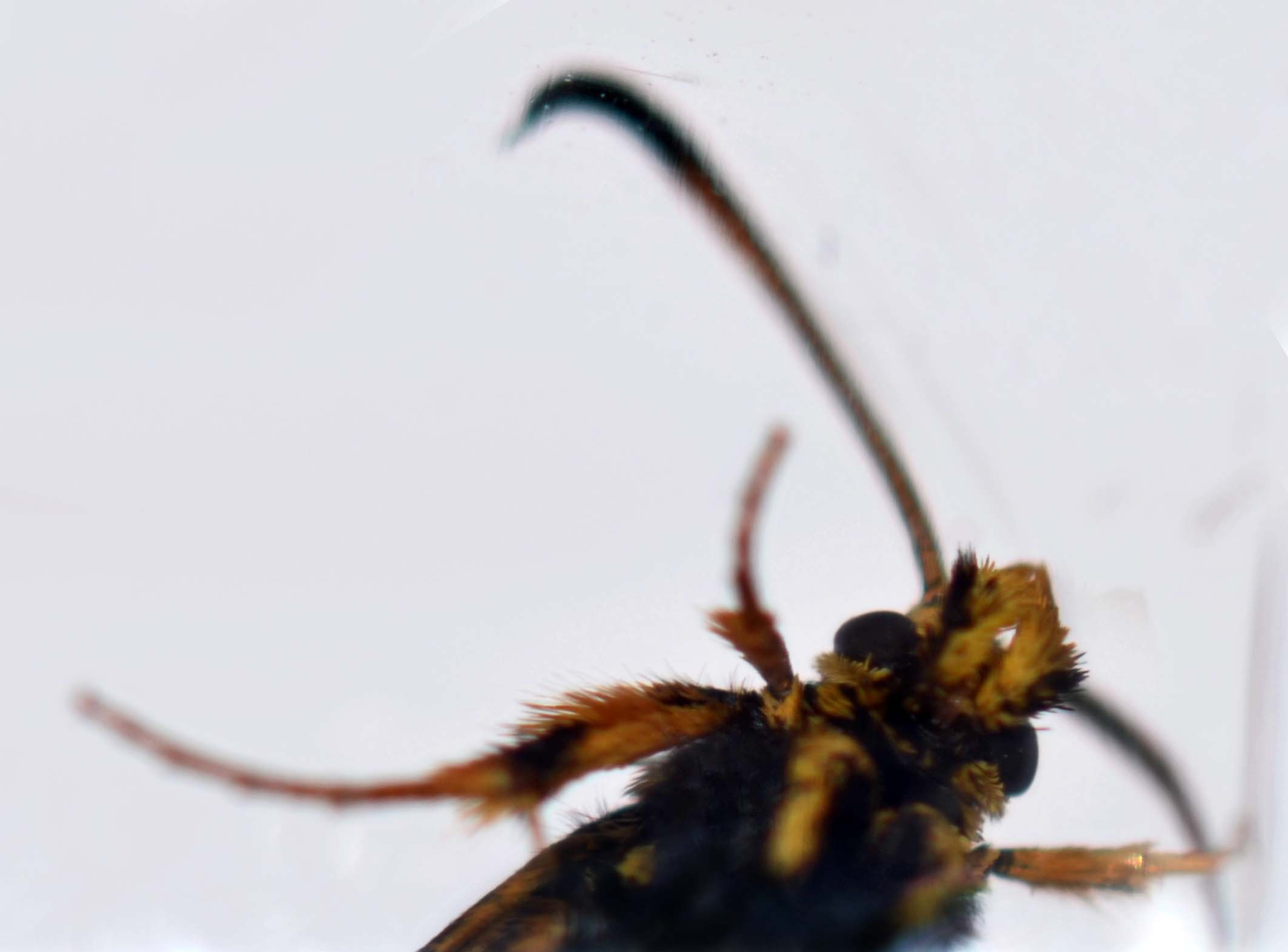 Bembecia ichneumoniformis ([Denis & Schiffermüller], 1775), (or closely related species?). photographed at the top of beach and near the cliff in Morgat (Finistère, Britain, west of France).